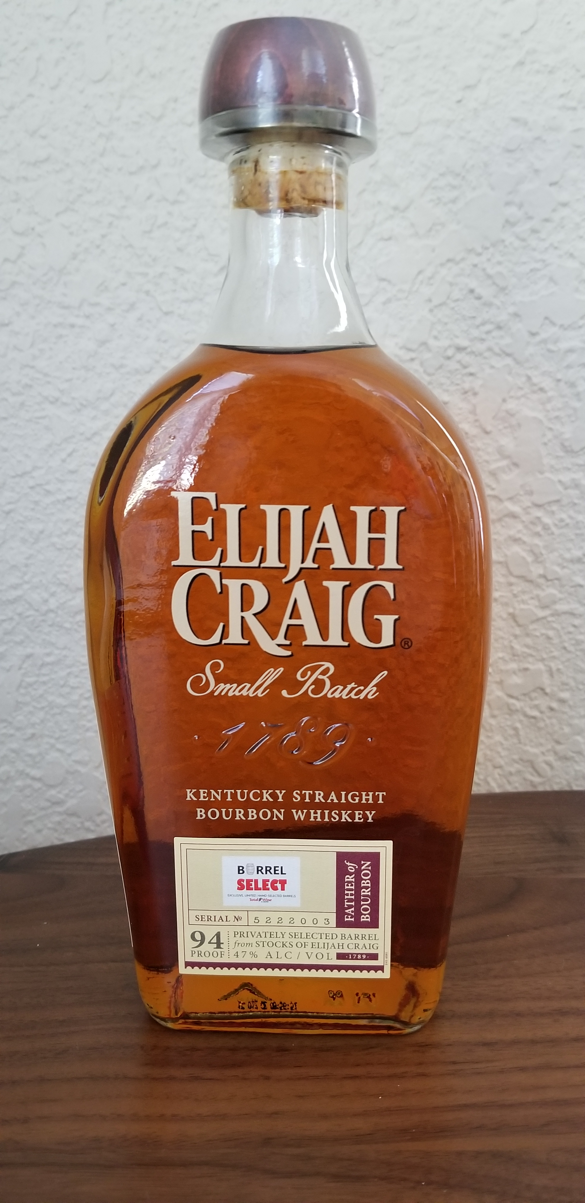 A bottle of Elijah Craig Small Batch (94 proof). Note this bottle is a private selection